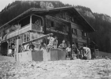 SCI, Litzirüti (Switzerland), 1935.